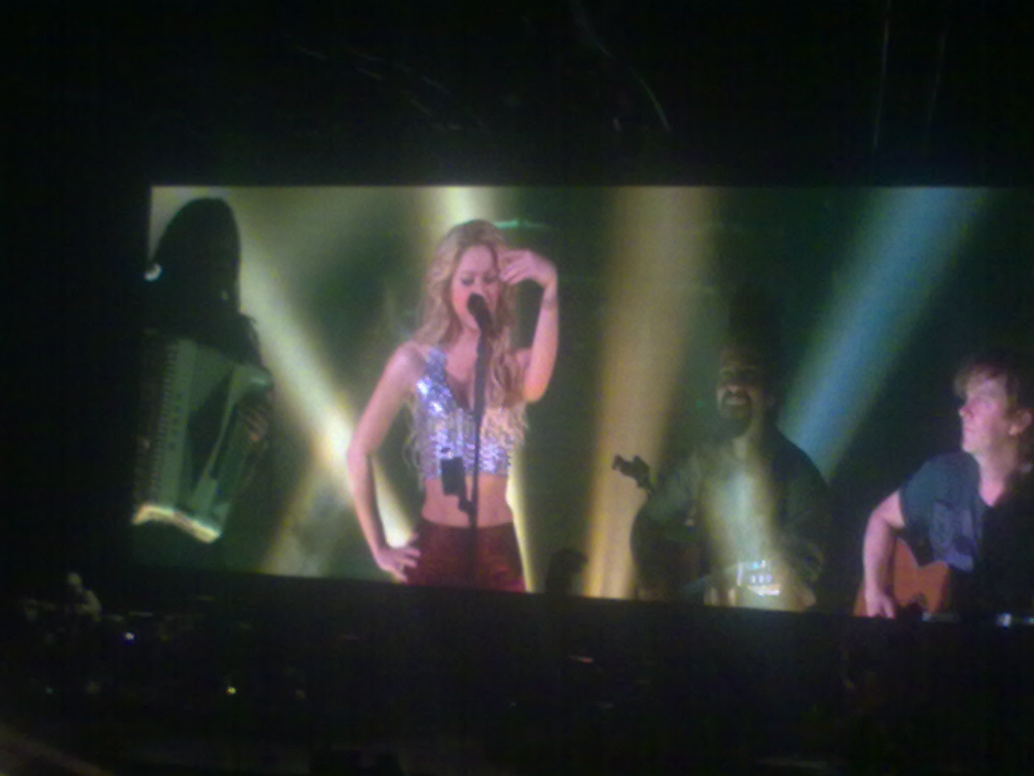 Shakira performing "Gypsy" live on the European Leg of her The Sun Comes Out World Tour.